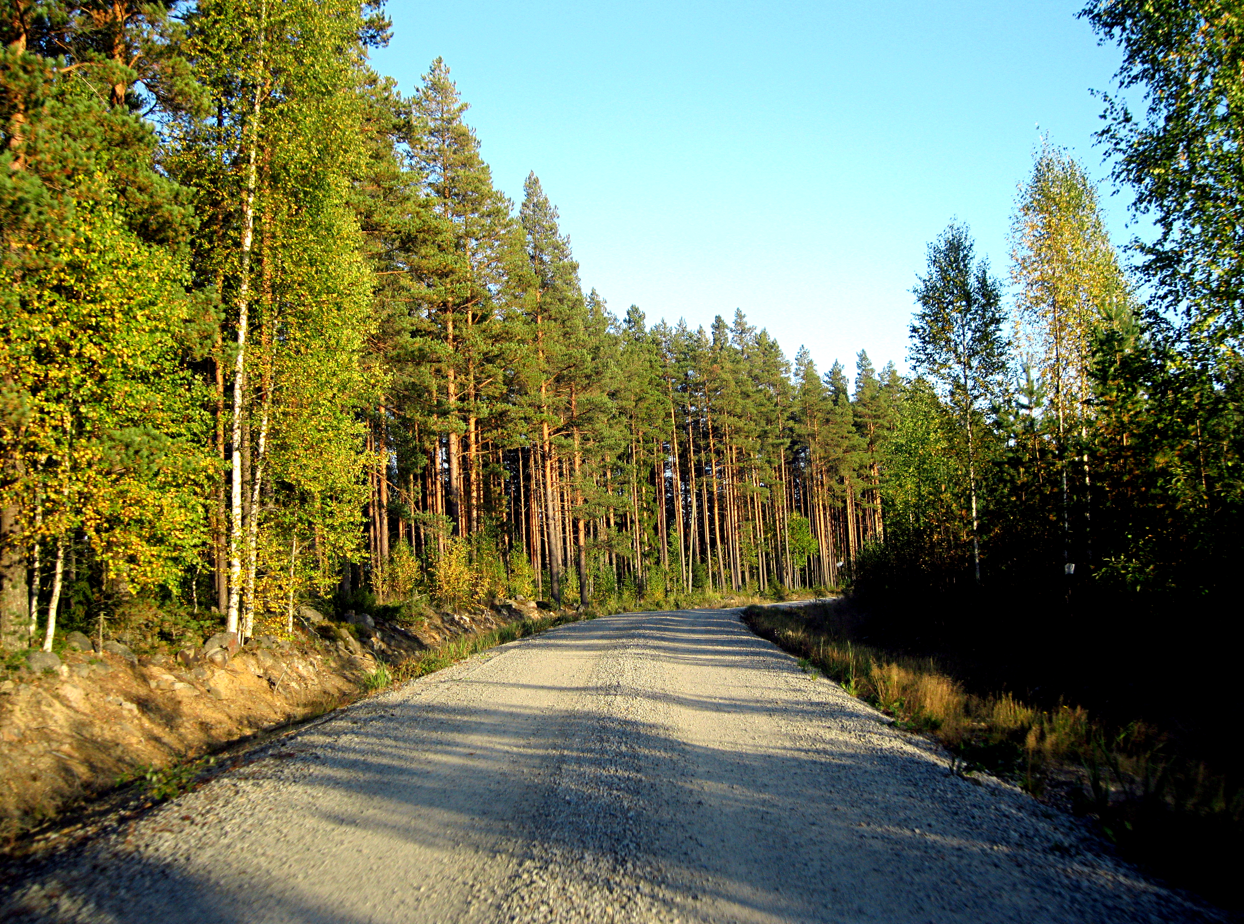 Forest road in Itäkylä, Lappajärvi.